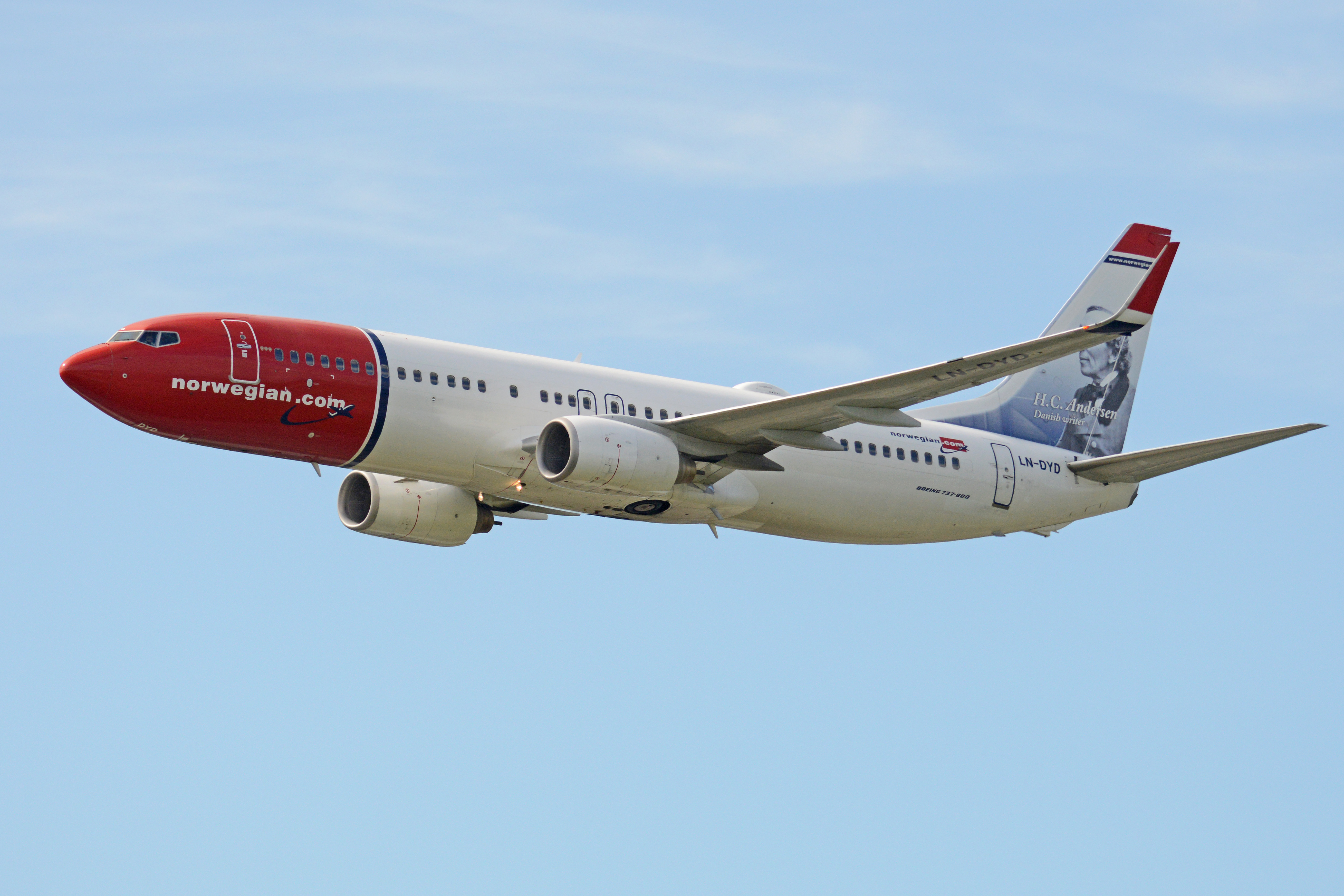 c/n 39002, l/n 3231. Built 2010. Seen displaying at the 2017 Sola Airshow, Stavanger Airport, Sola, Norway. 10th June 2017